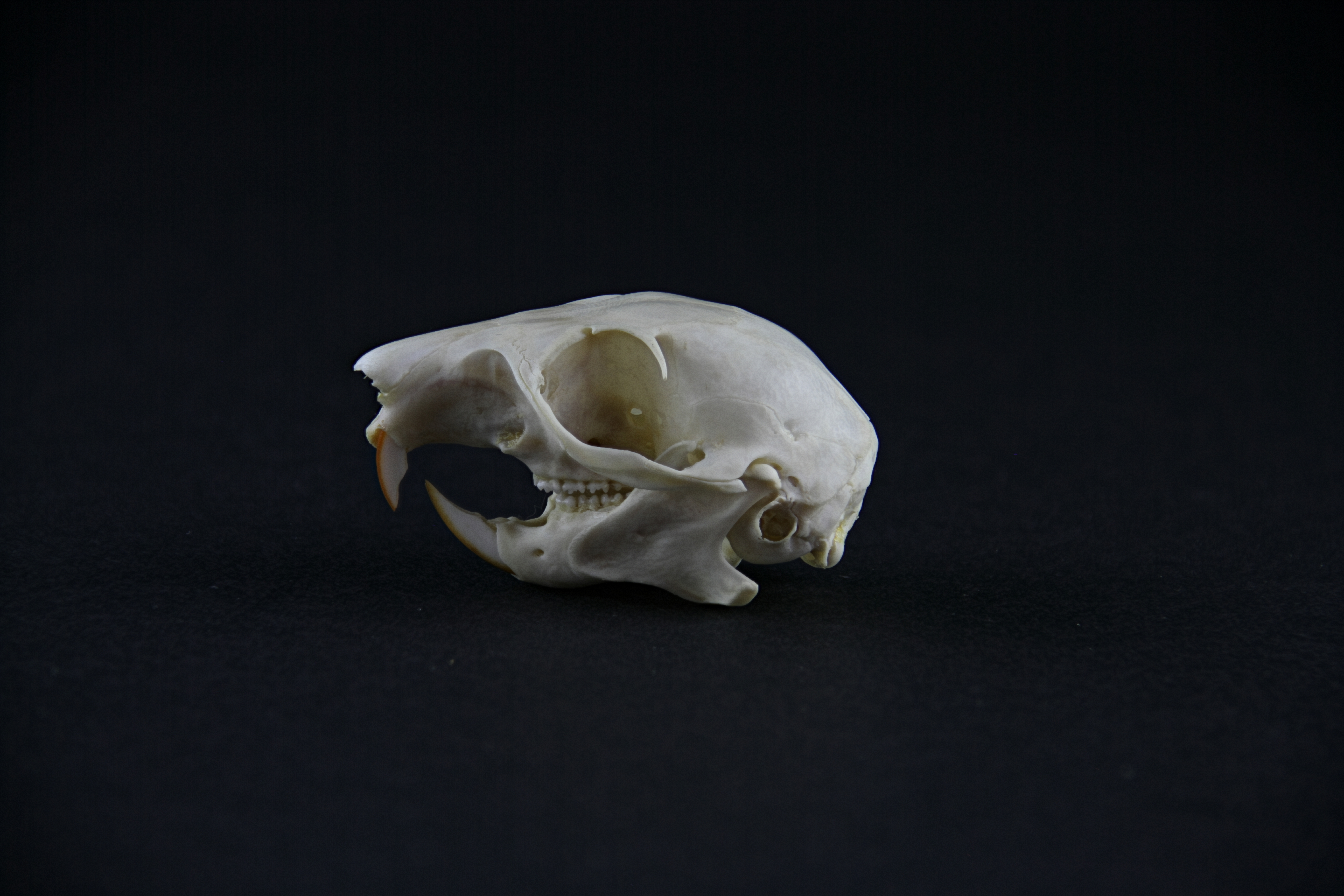 Skull of a sciurus-carolinensis, lateral view.